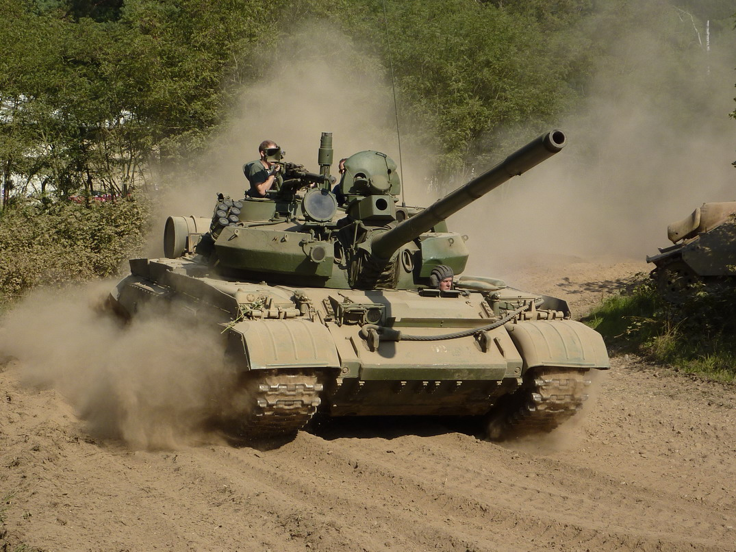 6. IMFT in Full-Reuenthal